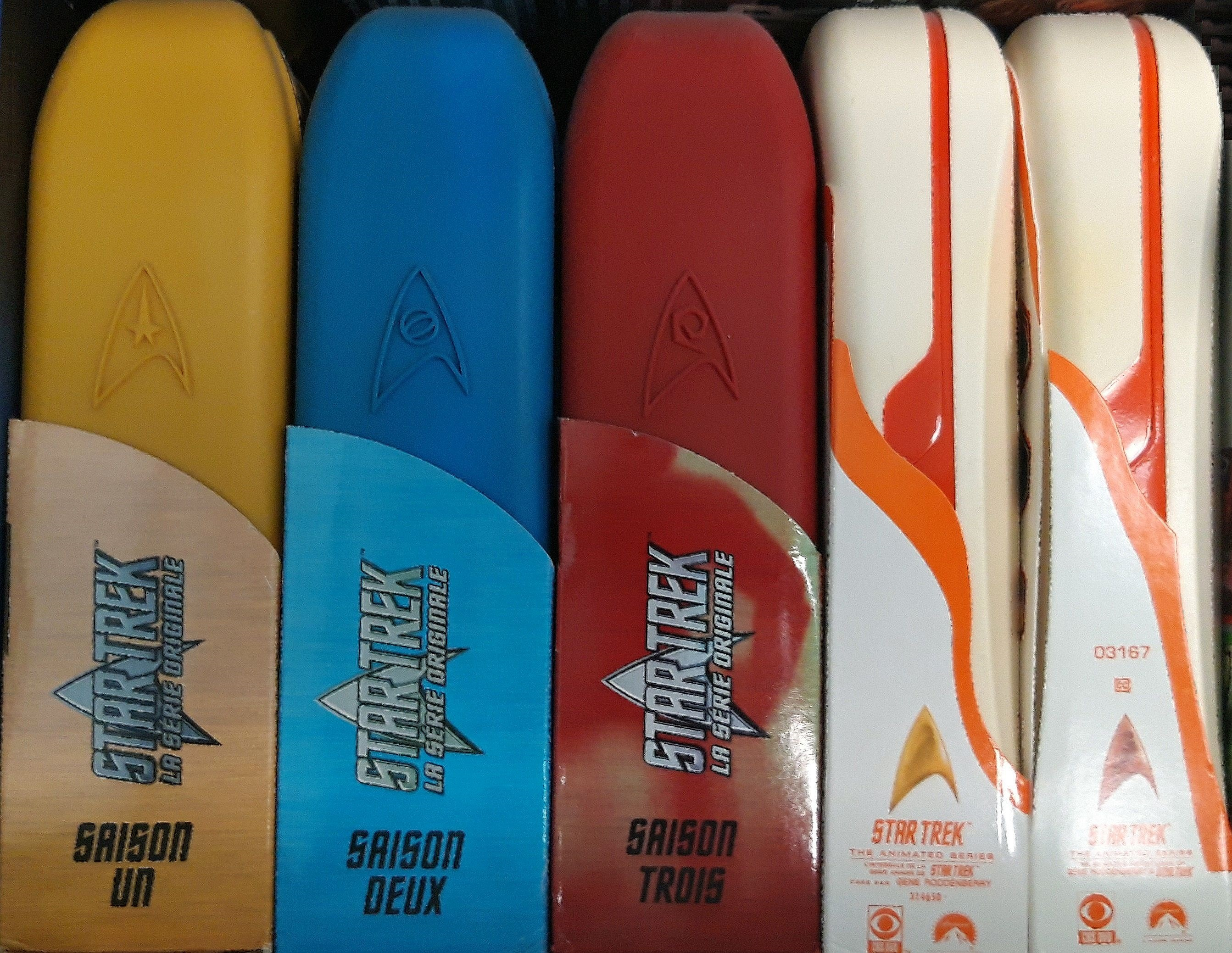 Star trek 66-69 and cartoons